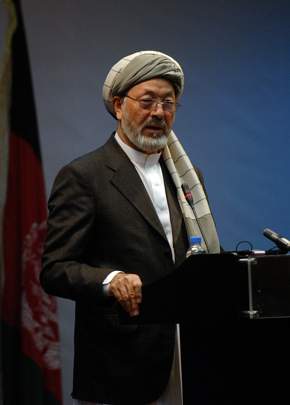 Karimi Khalili at the second annual National Conference on Water Resources, Development and Management of Afghanistan.